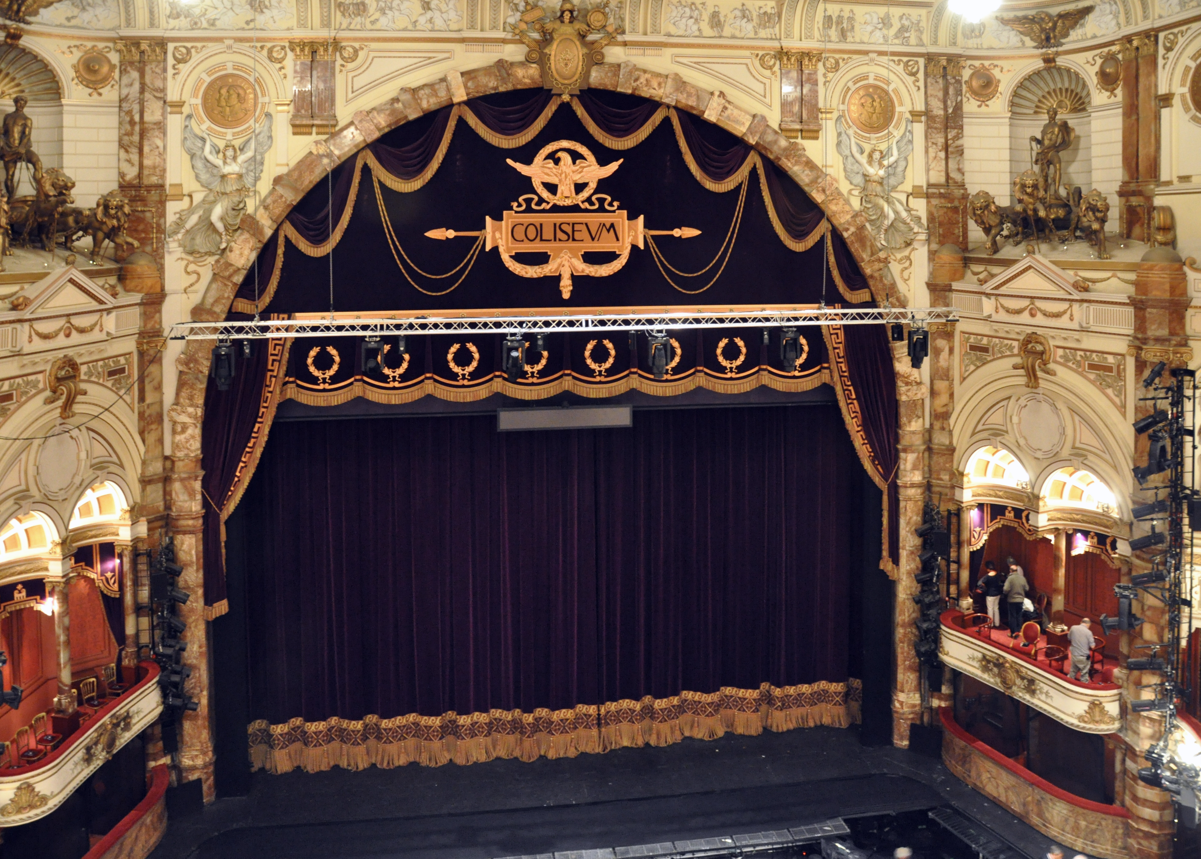 London, London Coliseum (English National Opera), auditorium